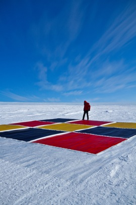 Photograph of Nasser Azam painting in Antarctica on an ice desert